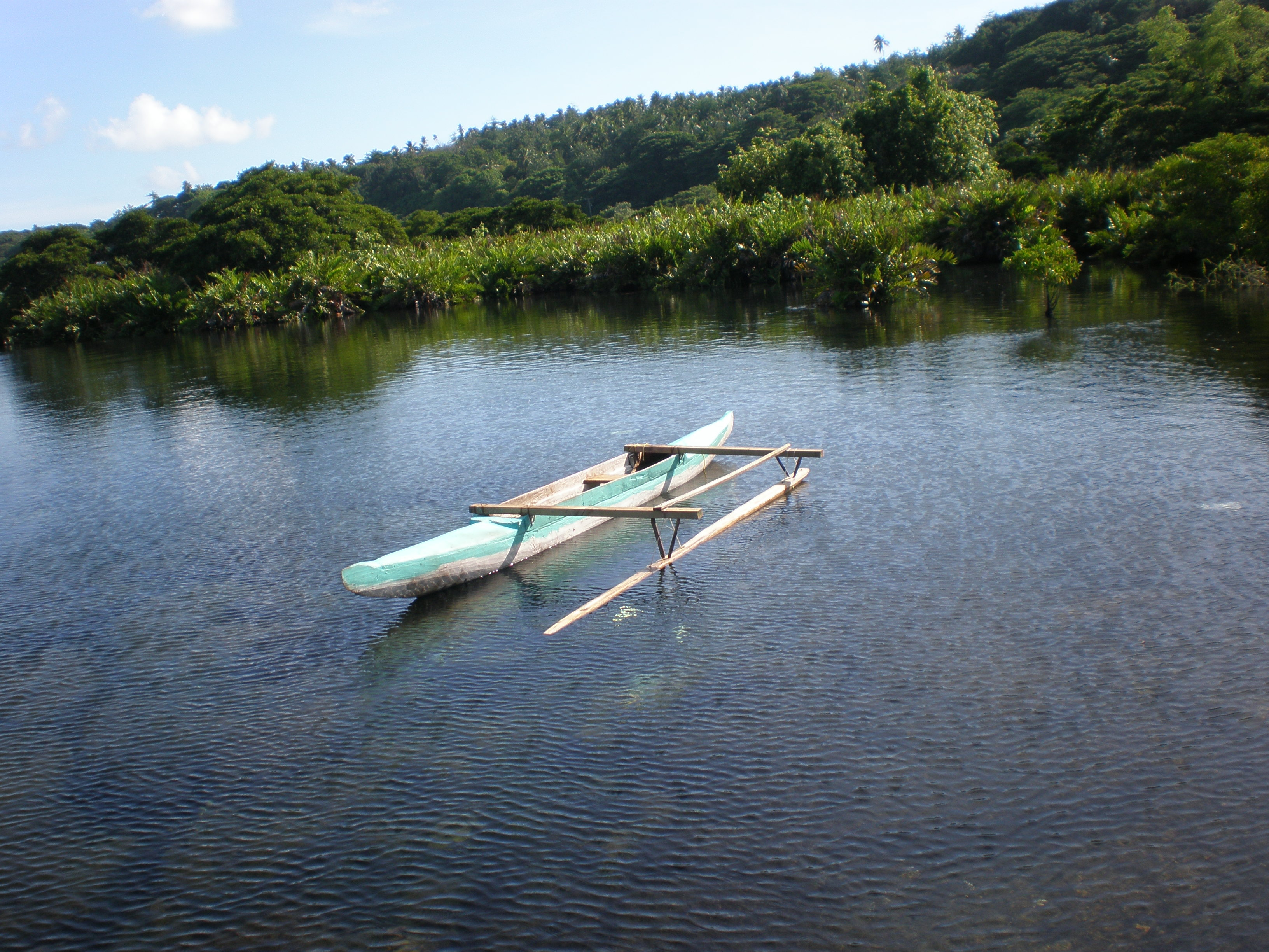 Va'a (canoe), Matavai village, Savai'i, Samoa, Polynesia, Oceania Va'a, o le nu'u o Matavai, Safune, Savai'i, Samoa, Polenisia Māori: Waka, Savai'i, Hamoa, Moana nui a Kiwa Canoë Polynésien, au Savai'i village, Samoa